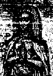 Margaret III, Countess of Flanders